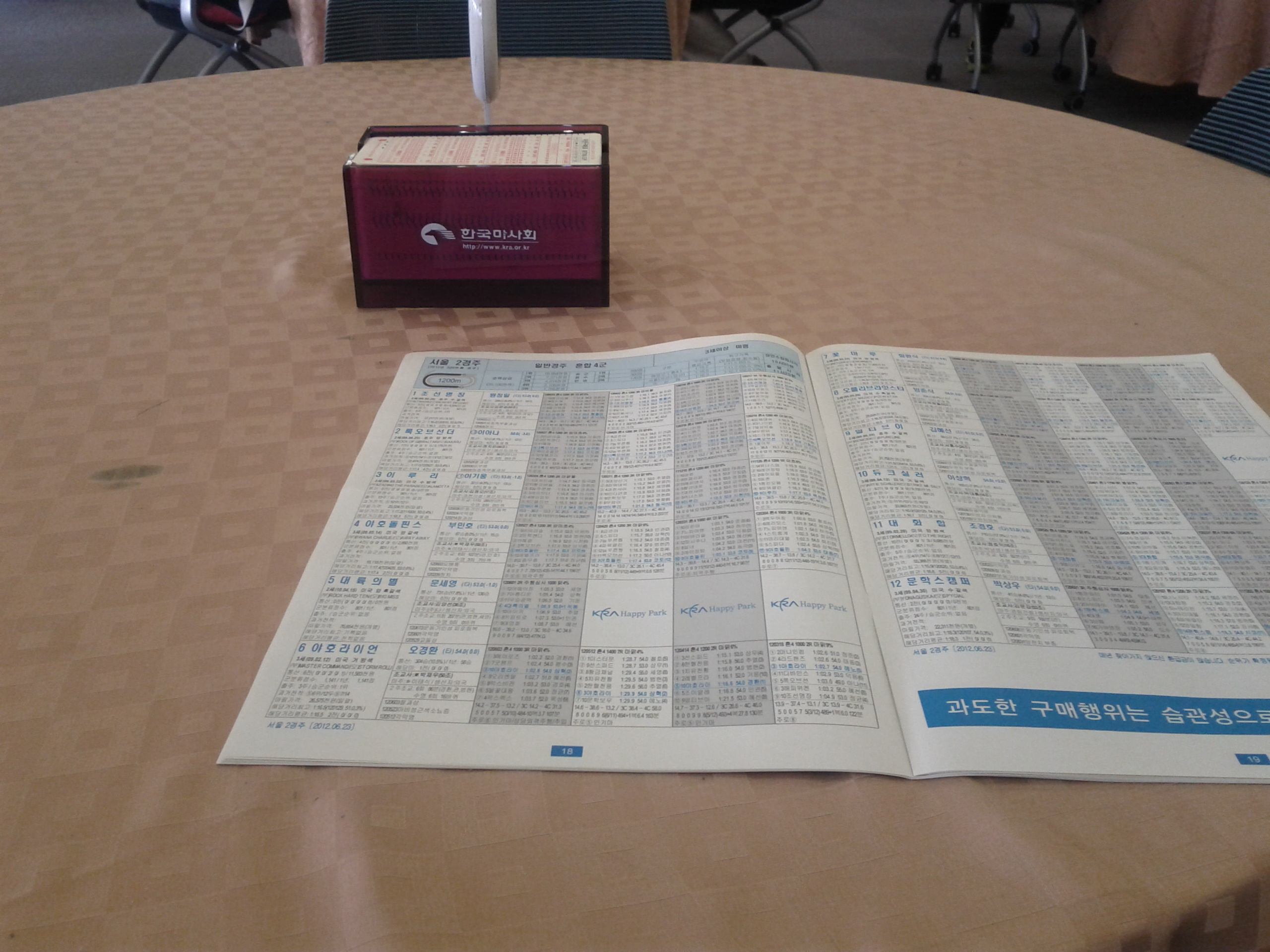 Seoul Racecourse Members hall with Official Racing magazine